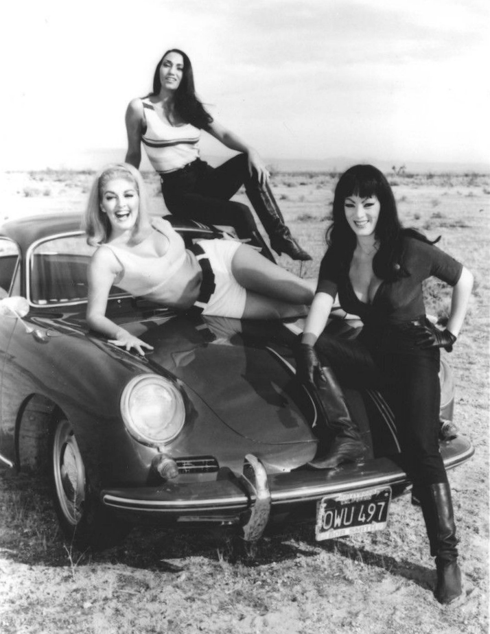 Faster, Pussycat! Kill! Kill! (1965) promotional photo.From left to right: Lori Williams, Haji, Tura Satana.